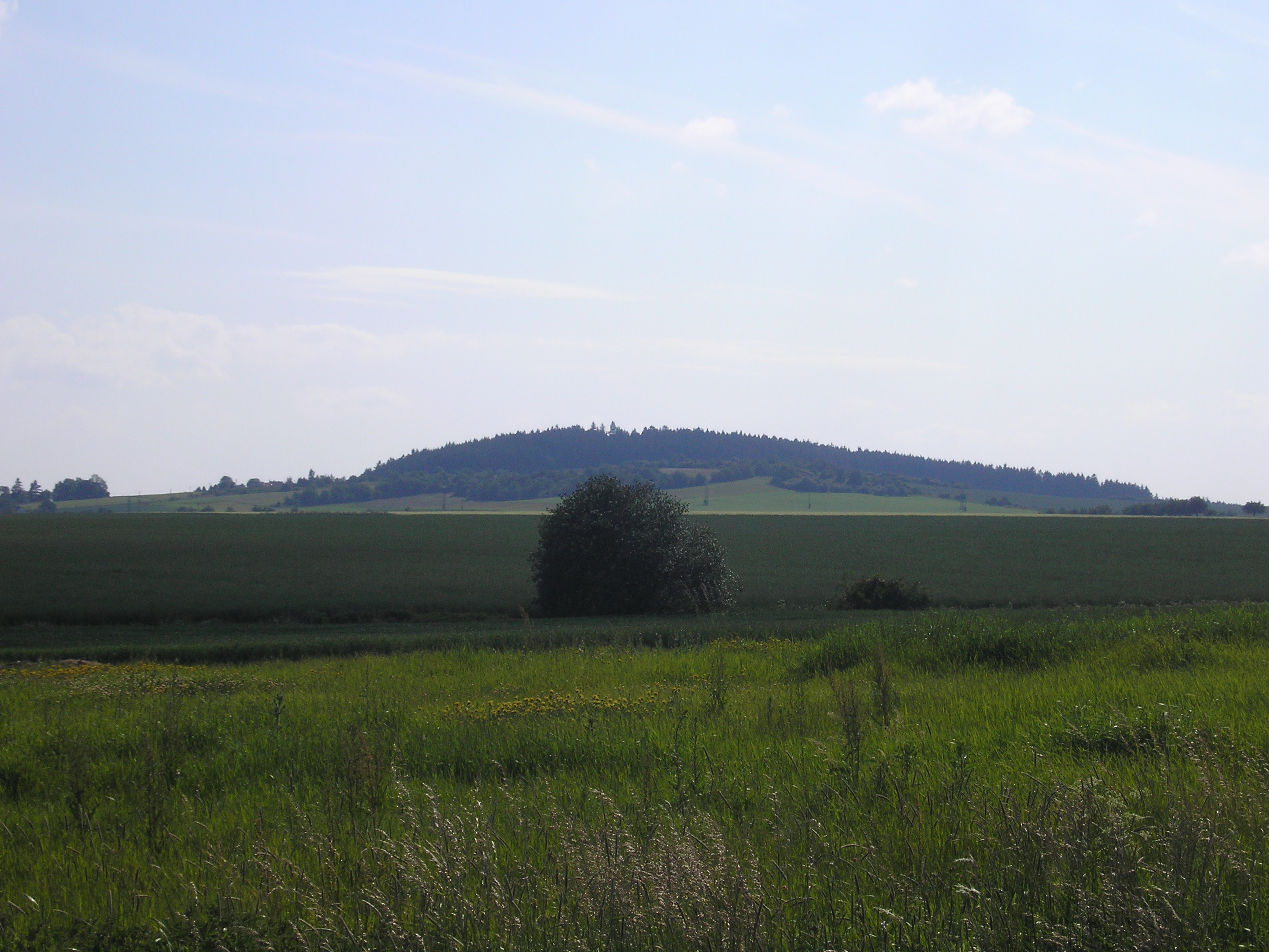 Center of village Mikulovice